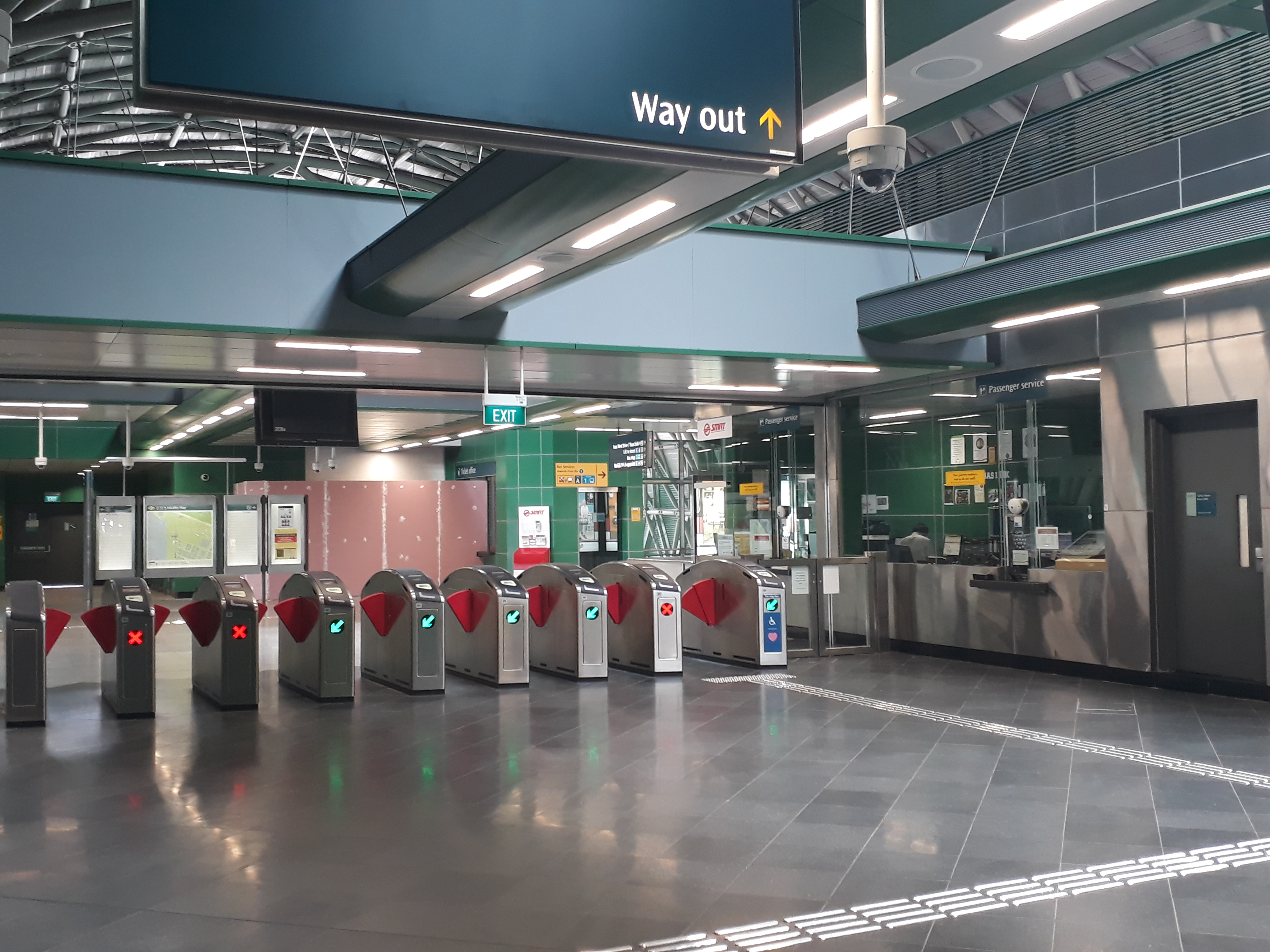 Concourse level of Tuas Link